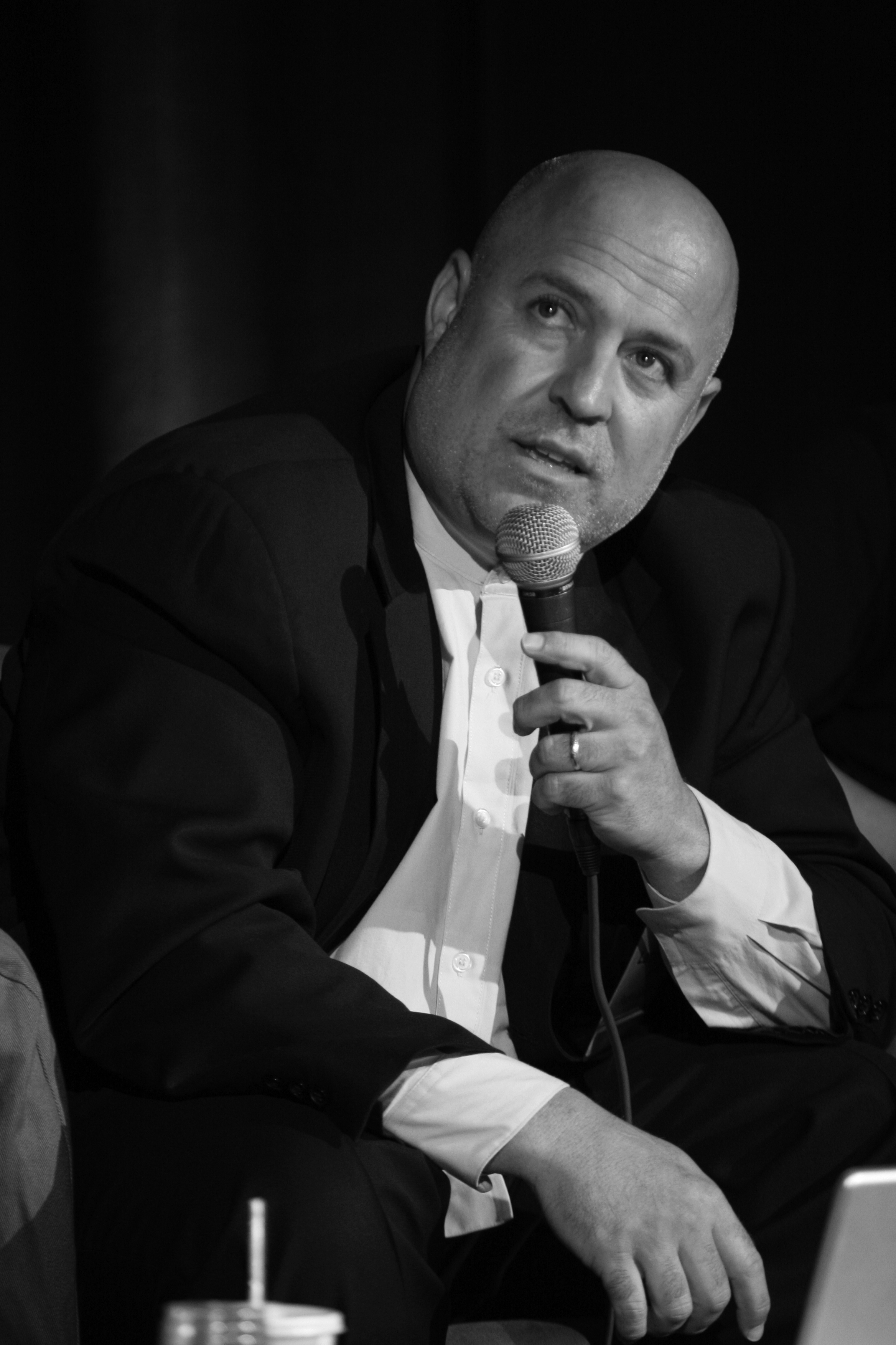 Lawrence Scarpa speaking at the TED Conference in Los Angeles